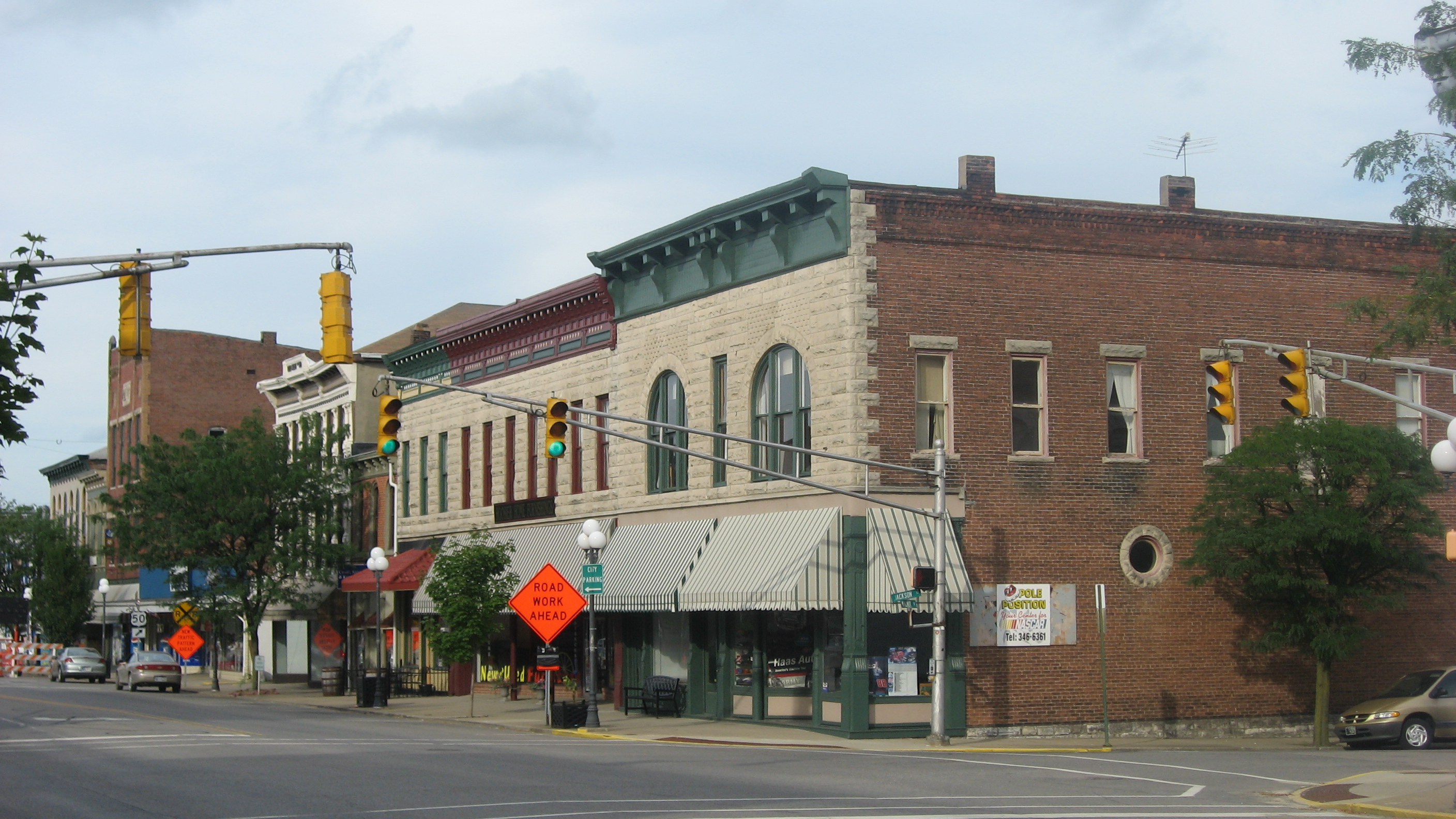 Buildings on the southern side of the 200 block of E. Walnut Street (U.S. Route 50) in North Vernon, Indiana, United States. This block is part of the North Vernon Downtown Historic District, a historic district that is listed on the National Register of Historic Places.